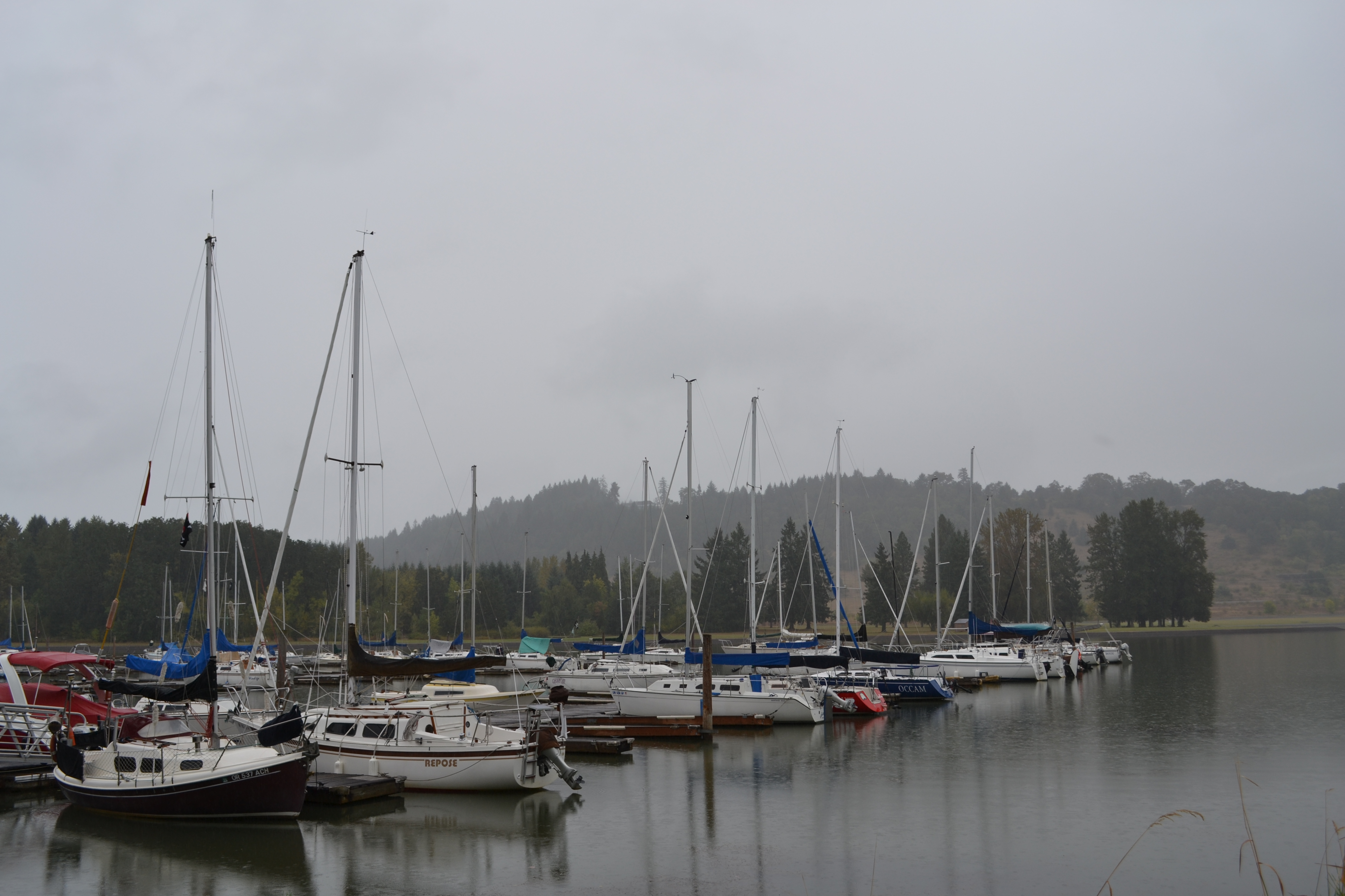 A-dock at Richardson Park Marina on Fern Ridge Reservoir (Veneta, Oregon)